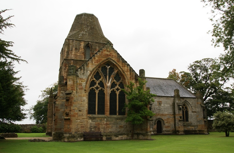 Seton Collegiate Church, East Lothian, Scotland